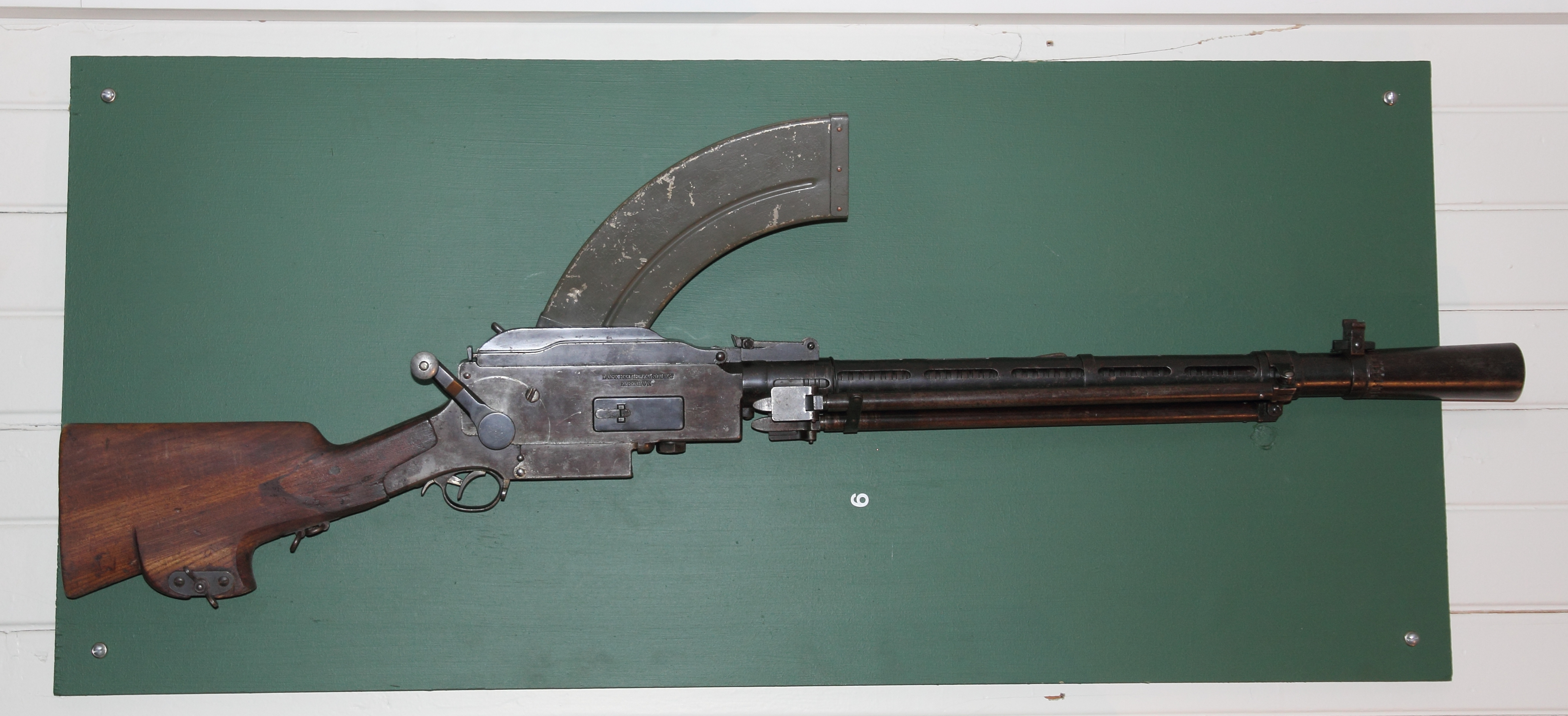 Madsen m/20 light machine gun in 7.62x54R caliber. Photographed in Mikkeli Infantry museum.